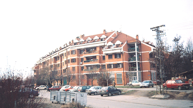 Image of Telep neighborhood in Novi Sad (self made)